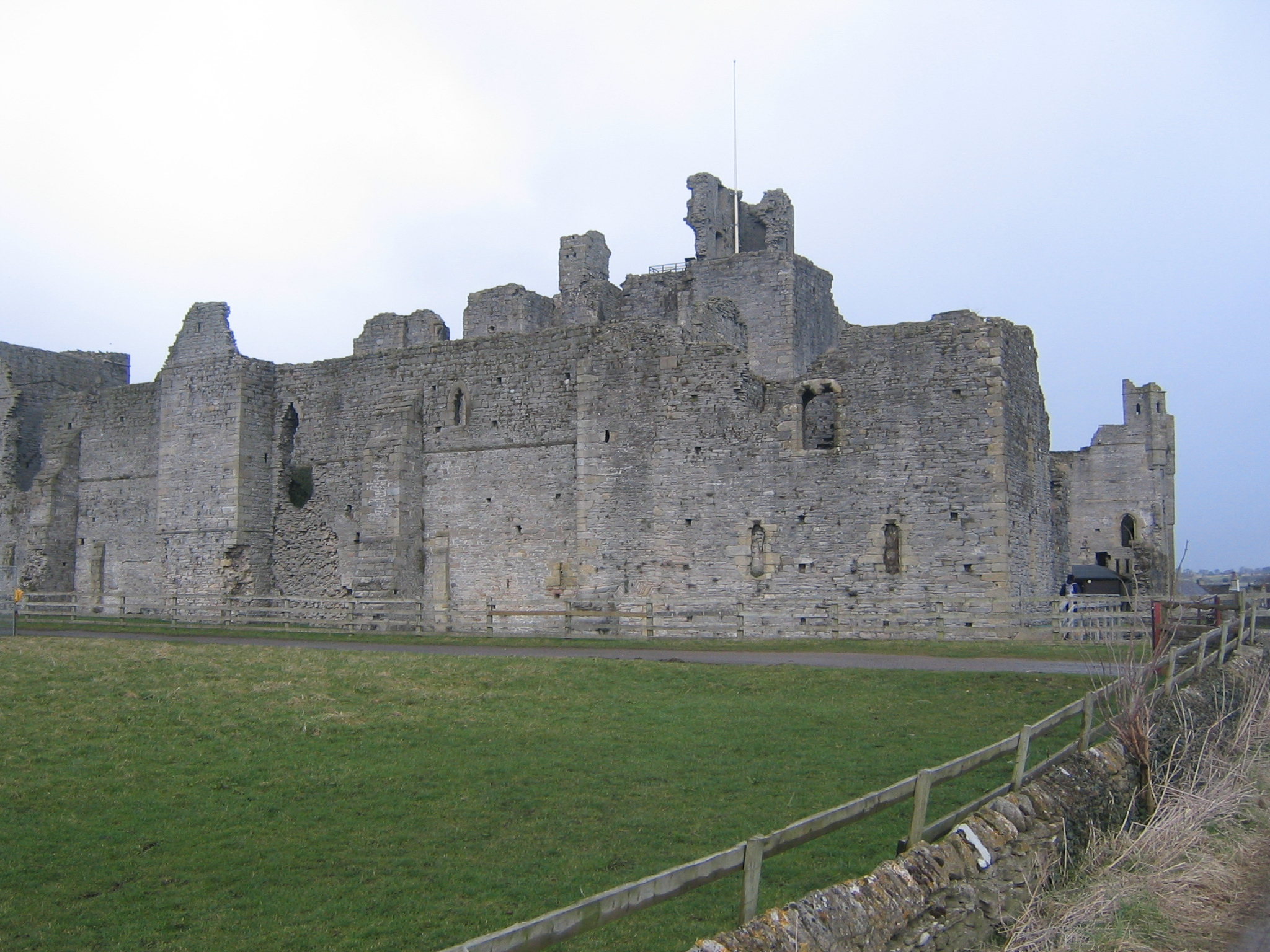 Middleham Castle This photograph shows a view of Middleham Castle from the public footpath that runs from the village due south to the River Cover. The picture was taken looking in a northerly direction towards Middleham.